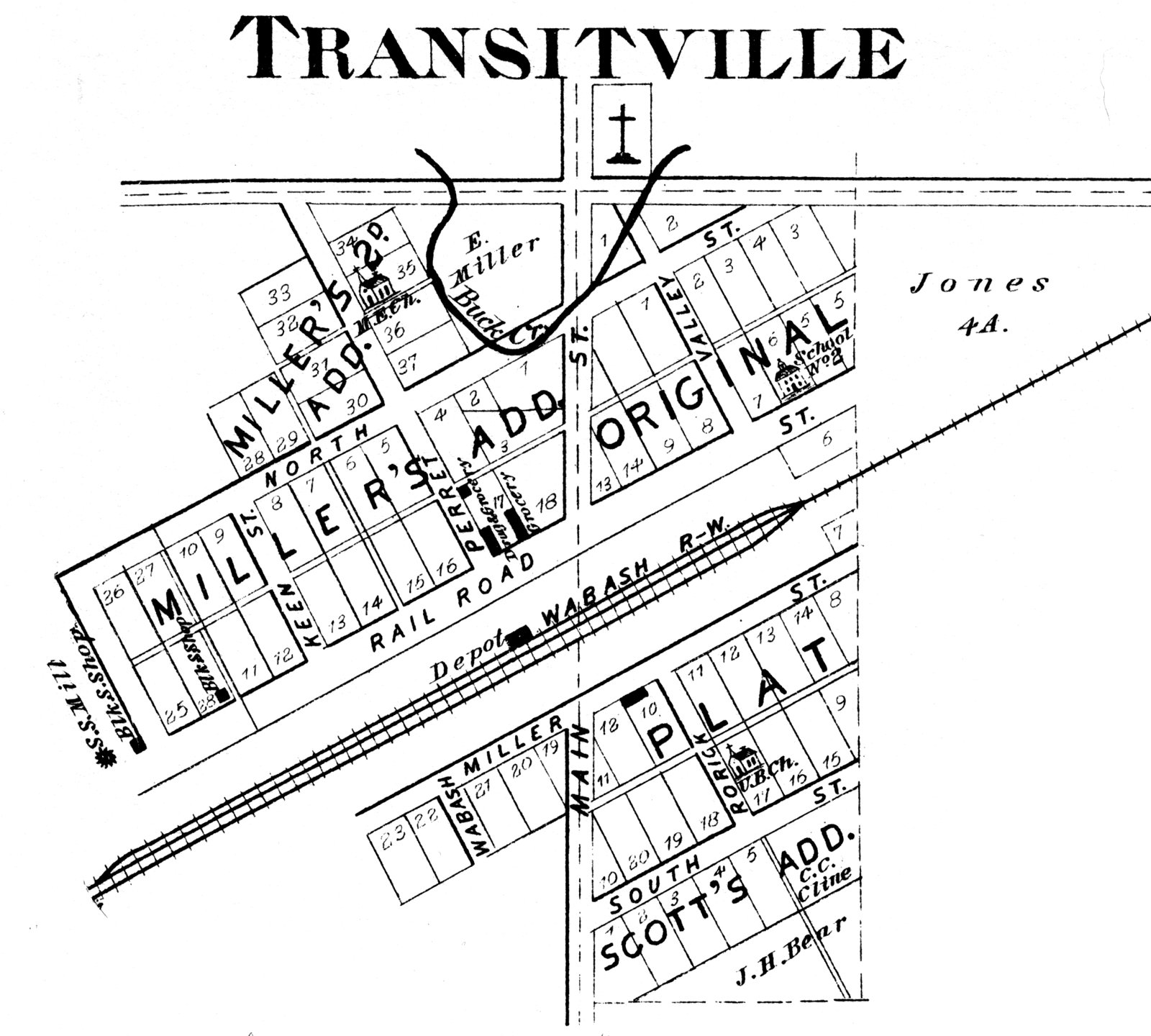 An 1878 map of Transitville (later Buck Creek) in Tippecanoe County, Indiana.